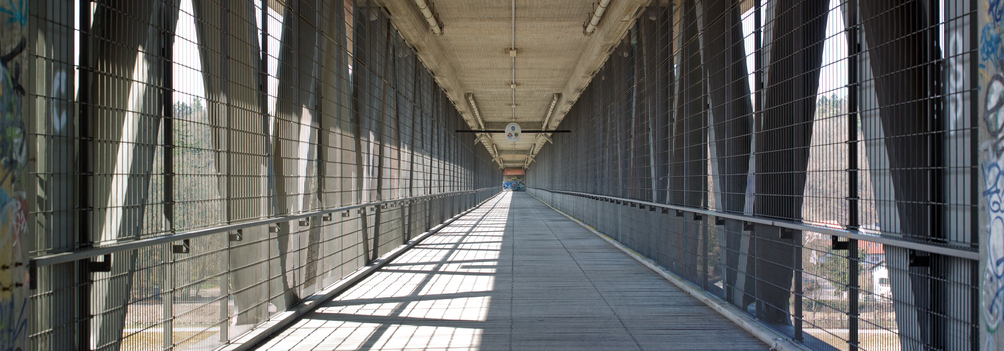 Großhesseloher Brücke, pedestrian passage, Munich, Germany